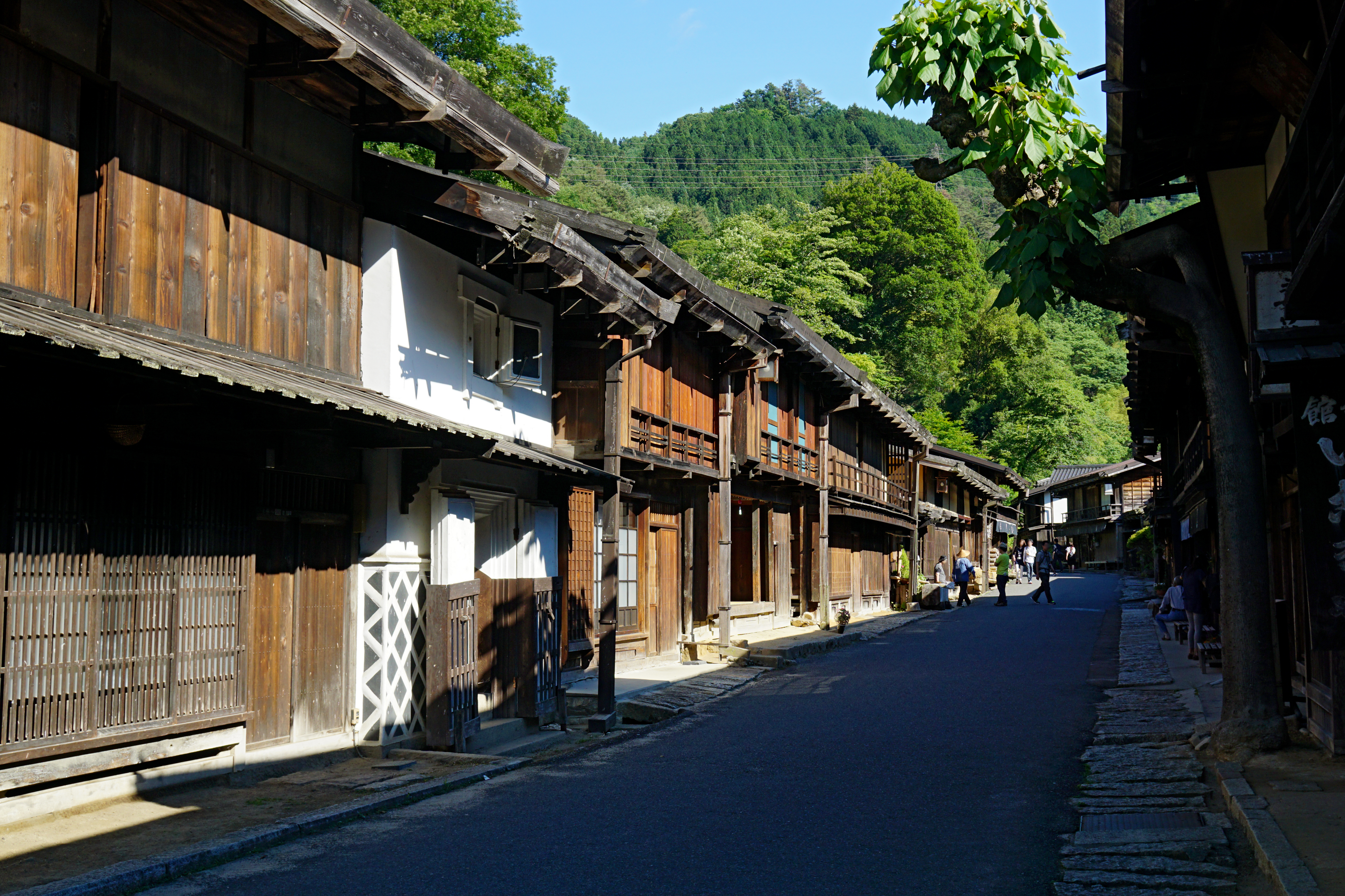 At Tsumago-juku in Nagiso, Nagano prefecture, Japan